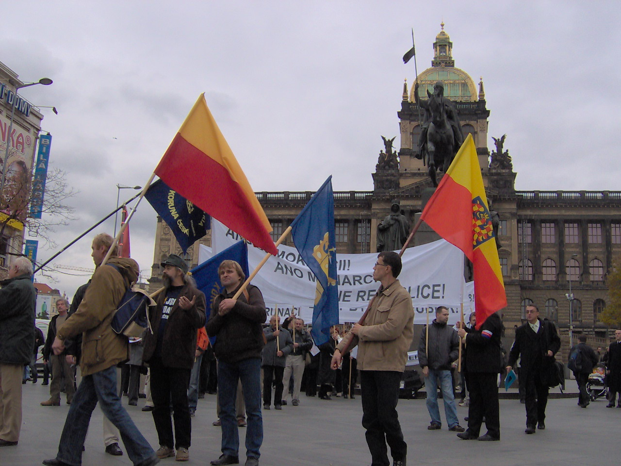 Monarchist Parade in Prague, organised by Czech monarchist party Koruna česká